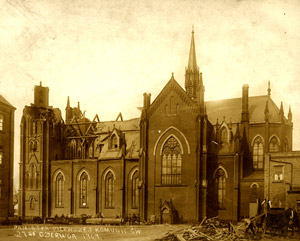 St. Stanislaus Church in Cleveland, Ohio damaged by tornado in 1909.